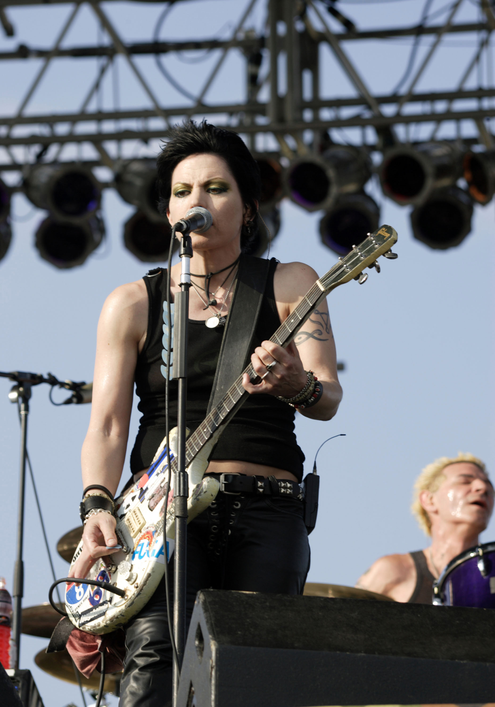 Rock music recording artist Joan Jett and the Blackhearts Band performs on stage for the Tribute to Our Heroes" celebration held at Fort Hood, Texas. The tribute honors US Army (USA) Soldiers who have recently returned from the War on Terrorism, is sponsored by the Morale, Welfare and Recreation (MWR) Department, and will consist of nine hours of live music and entertainment.